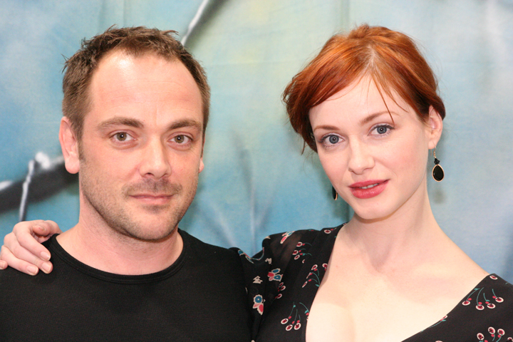 Mark Sheppard & Christina Hendricks